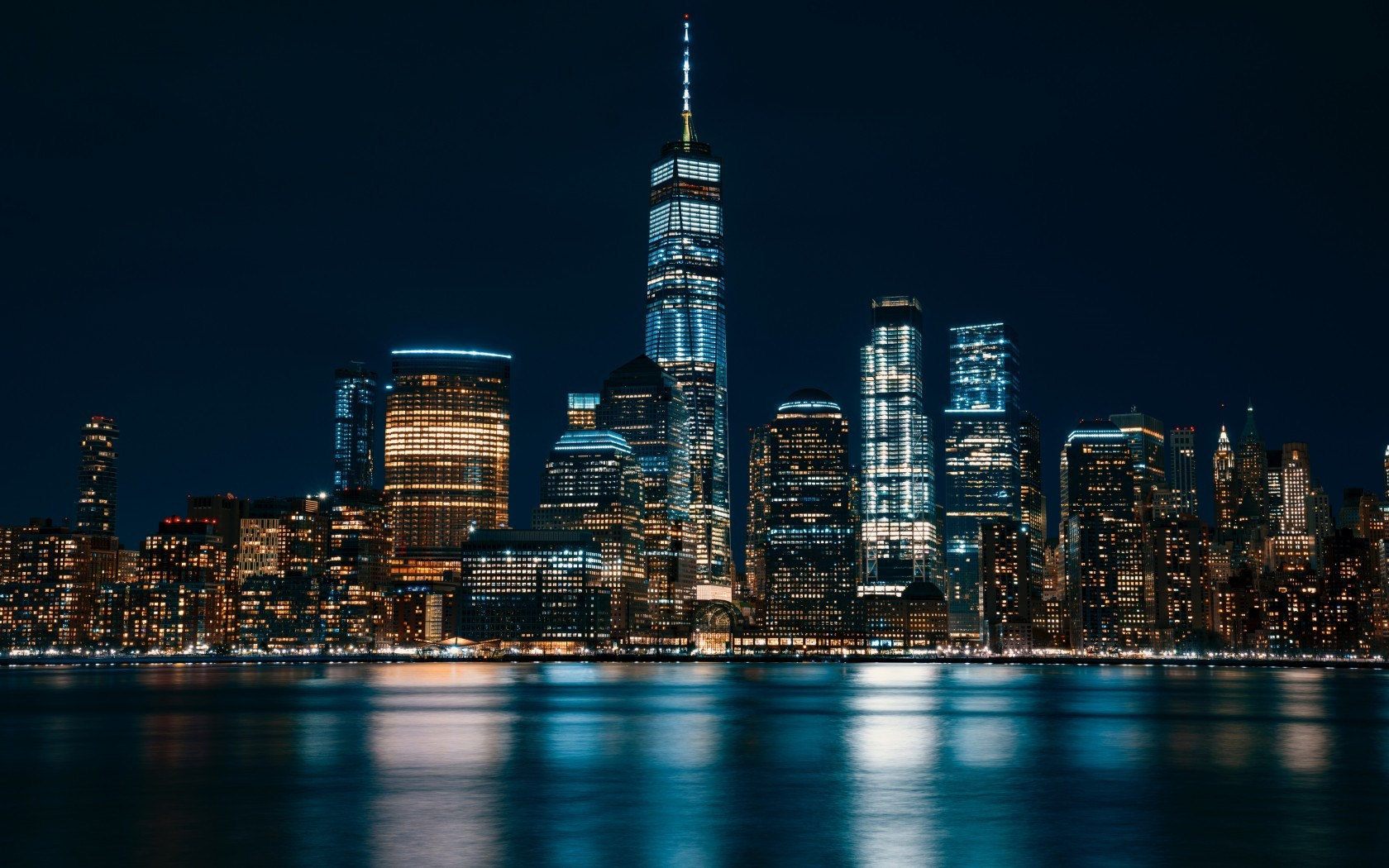 new york skyline.